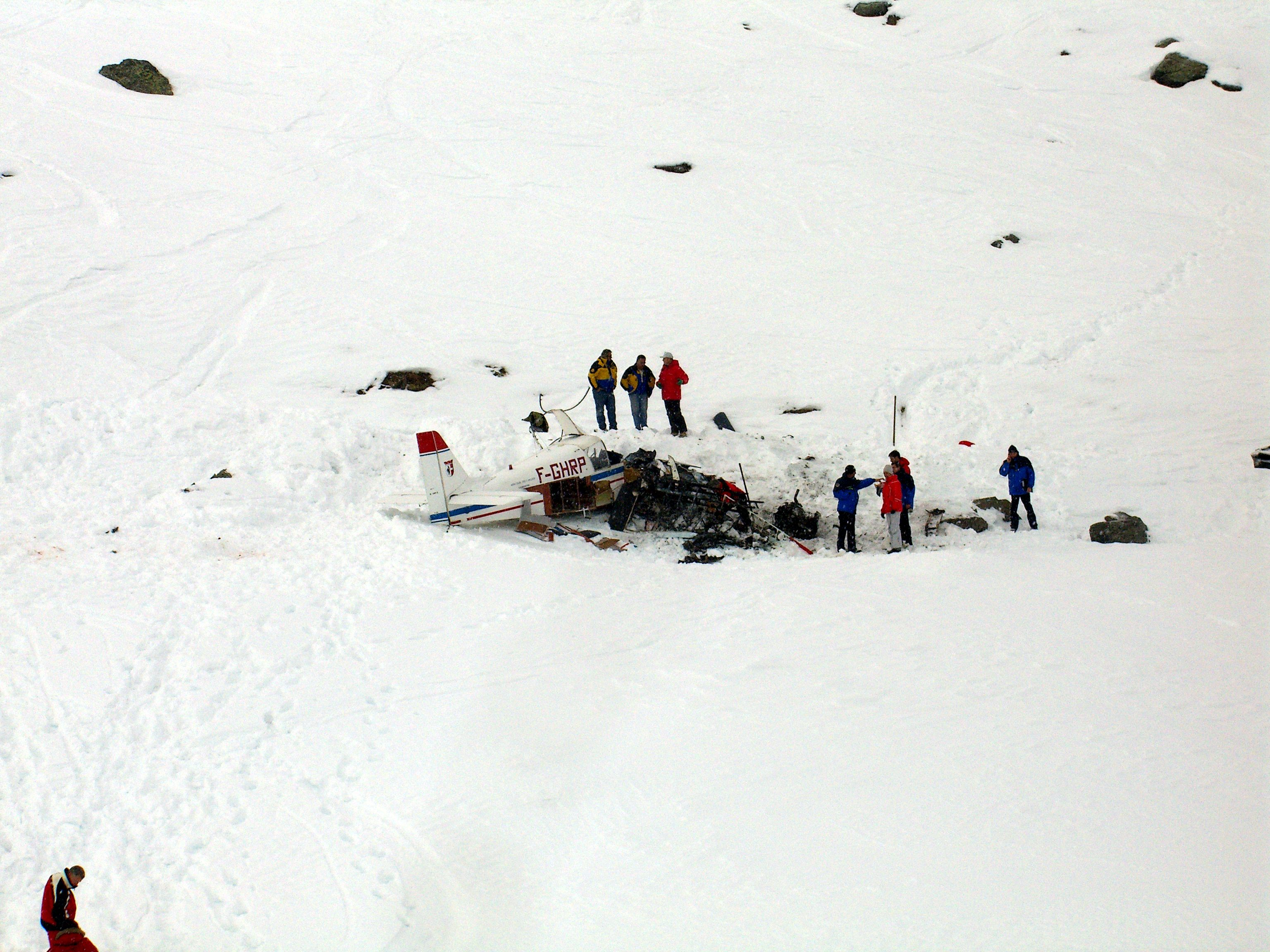 Crashed plane in Les Trois Vallées (near Val Thorens)